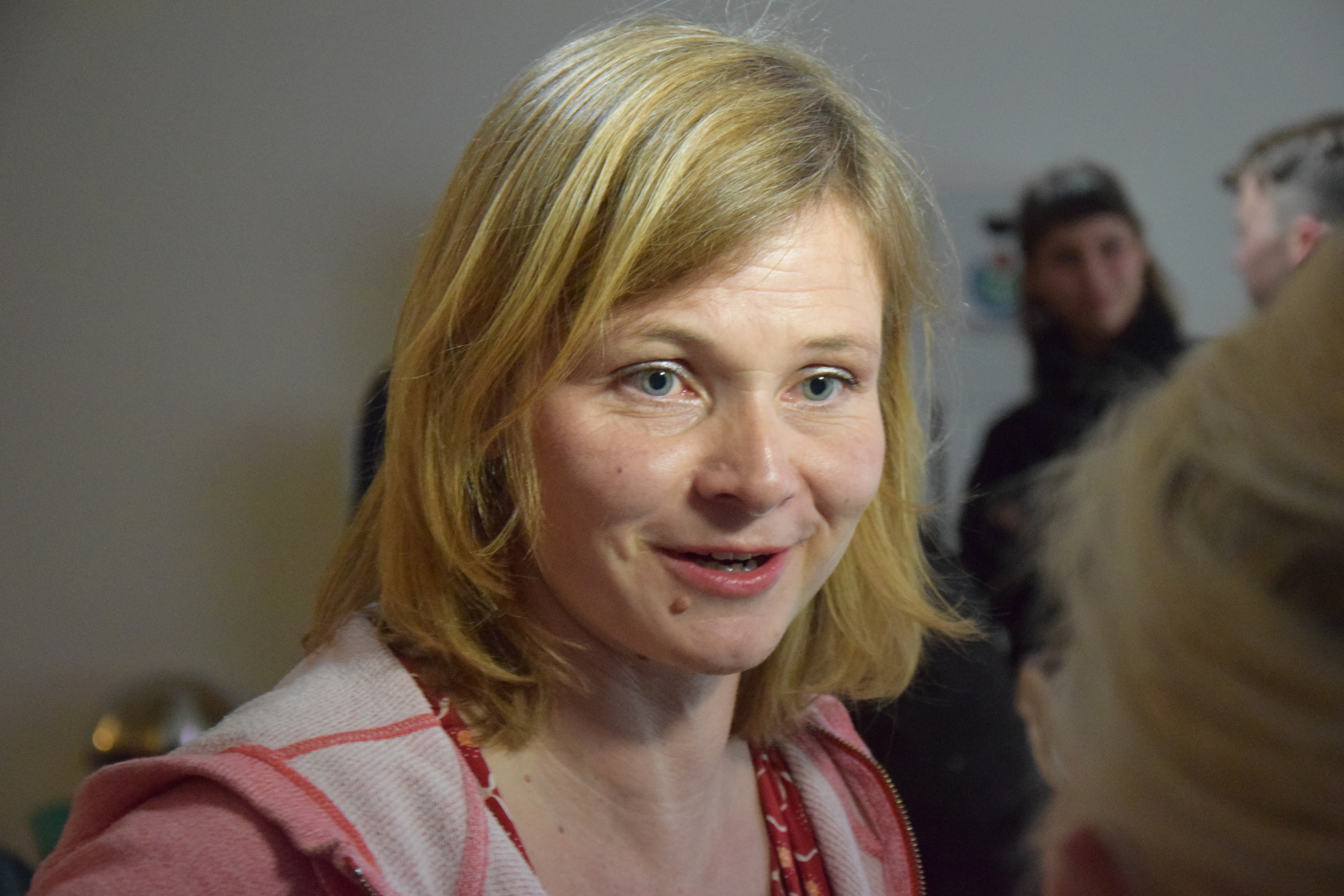 7. ABC des Freien Wissens "G=Grundeinkommen"